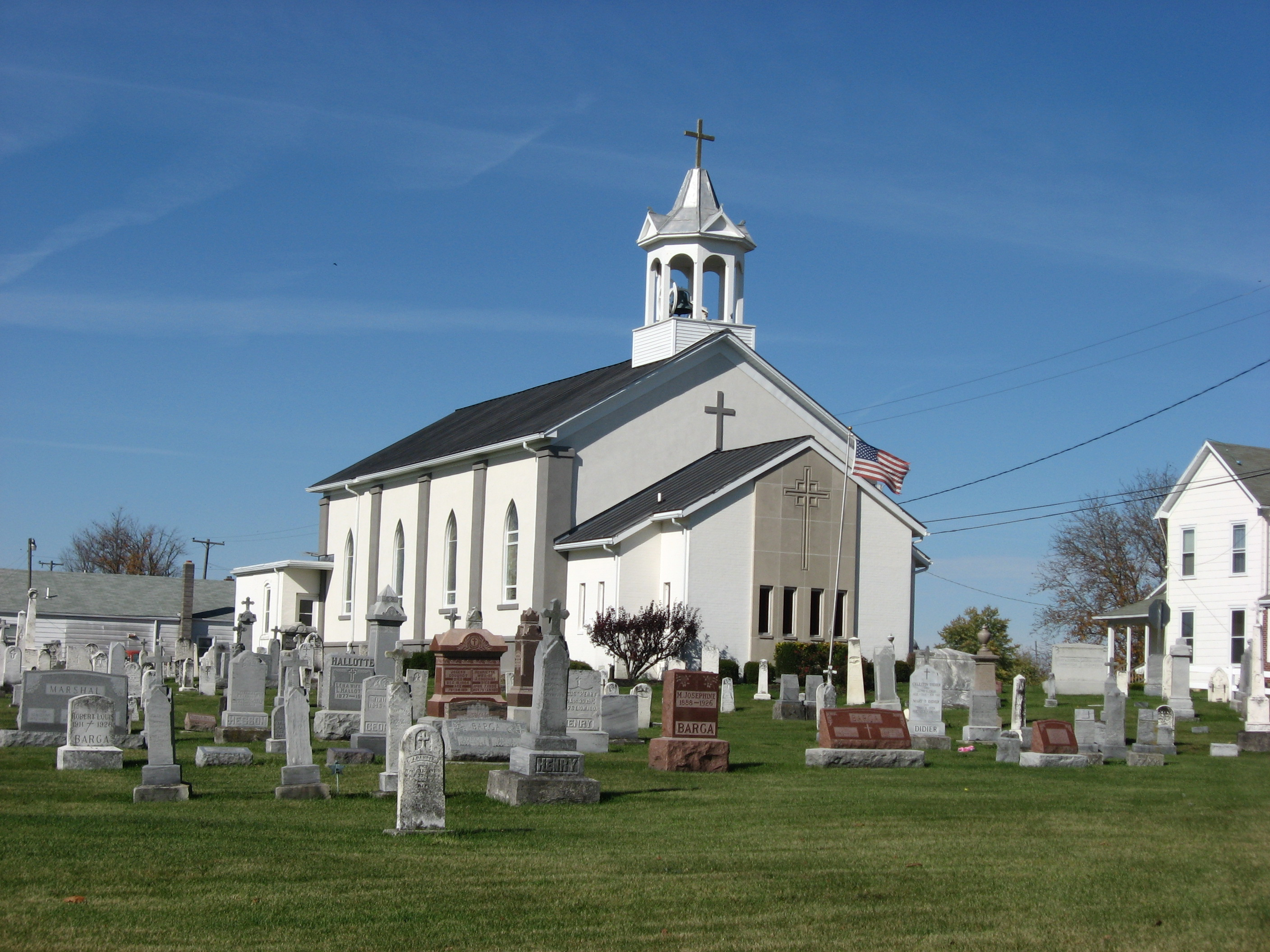 Front of Holy Family Catholic Church, located on the southern side of State Route 185 in Frenchtown, an unincorporated community in Wayne Township, Darke County, Ohio, United States. Built in 1866, the church was added to the National Register of Historic Places as a part of the Cross-Tipped Churches of Ohio Thematic Resources.